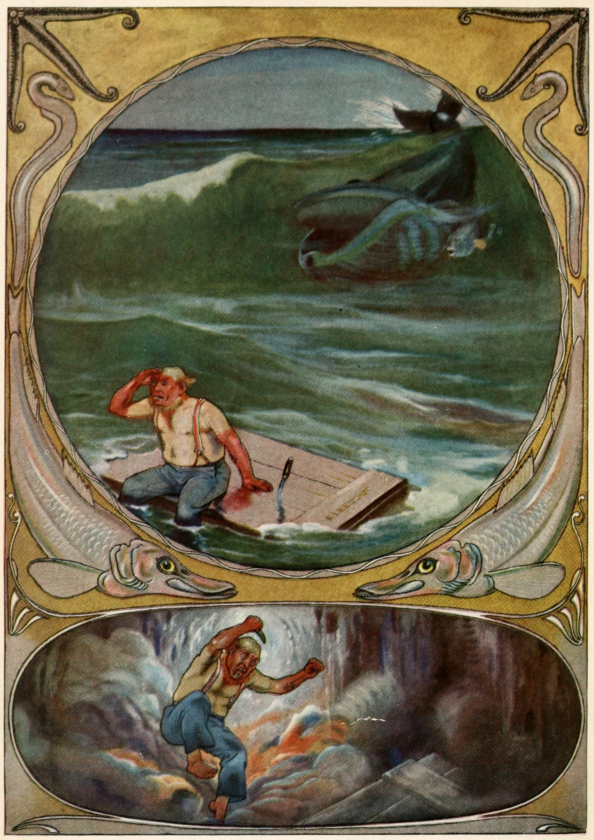 Illustration from a collection of short stories Just so stories (c1912) Garden City, N.Y. : Doubleday & Co., Inc.